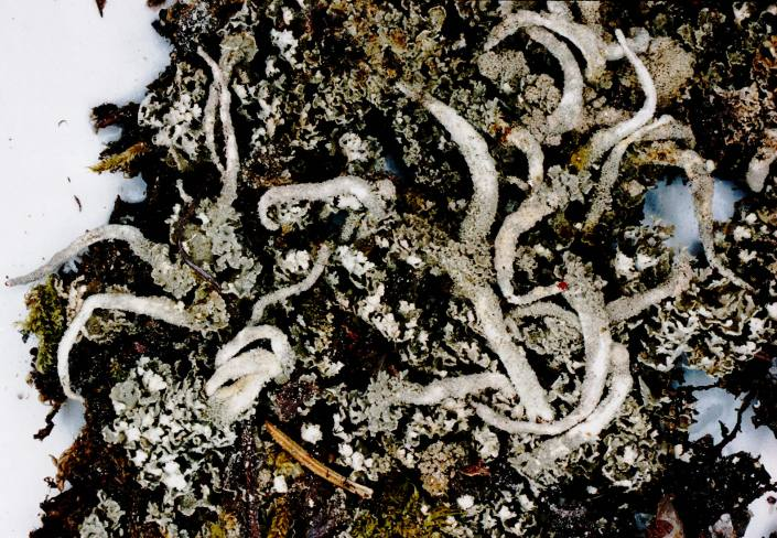 Cladonia macilenta var. macilenta Hoffm., 1796 Photograph of a herbarium specimen. (Spot test reactions on podetia: PD+ dark yellow-orange, K+ yellow) These specimens were growing on soil on a rock along Trail 517 about 1 mile from Forest Service Road 19, in the Dolly Sods Wilderness Area of the Monongahela National Forest, Randolph County, West Virginia, USA. Collected and identified by E.C. Uebel (No. U-47, 19 May 2001).